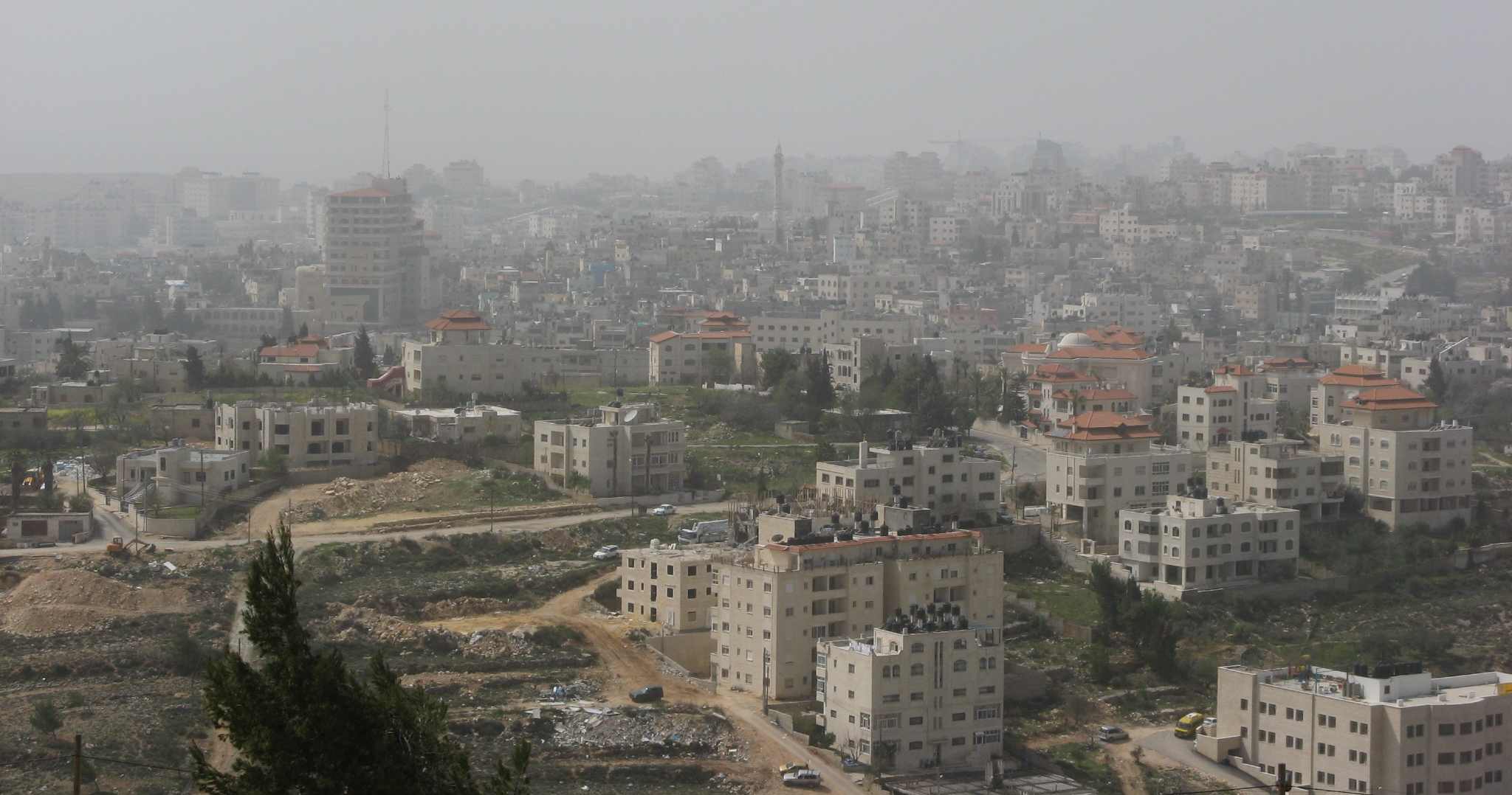 El Birah from Psagot